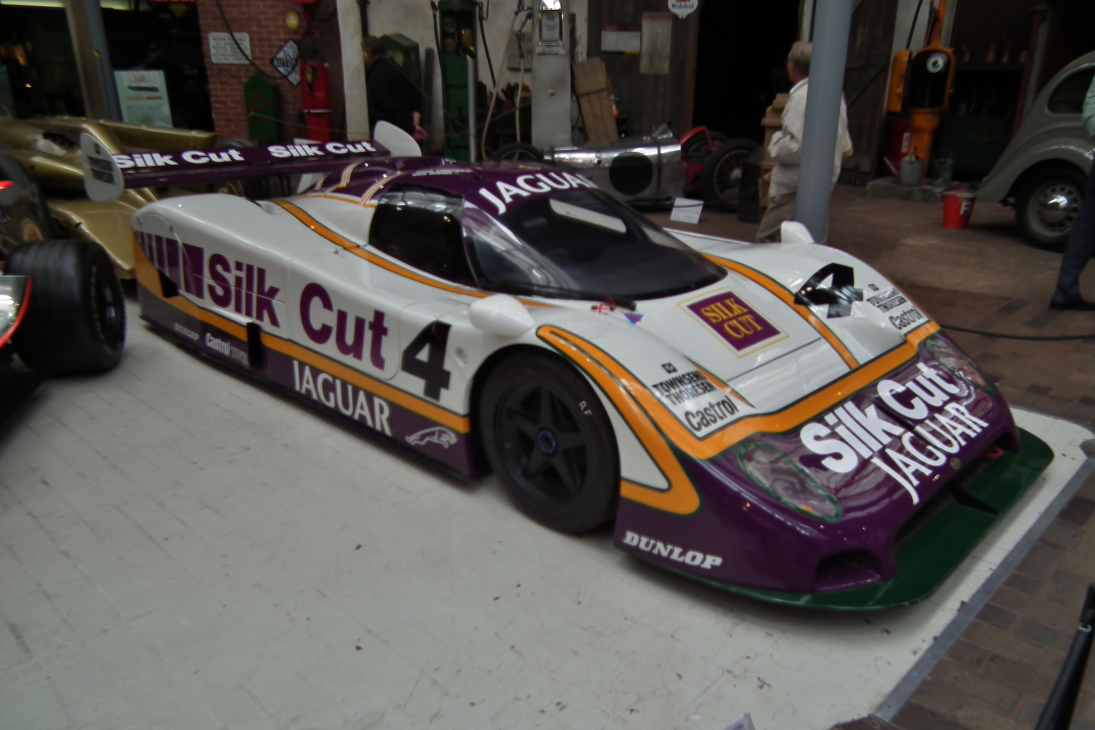 1987 Jaguar XJR-8 race car. Taken at the National Motor Museum in Beaulieu, Hampshire, England.